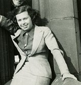 Rita Harradence at the University of Sydney cropped from a pic with John Cornforth